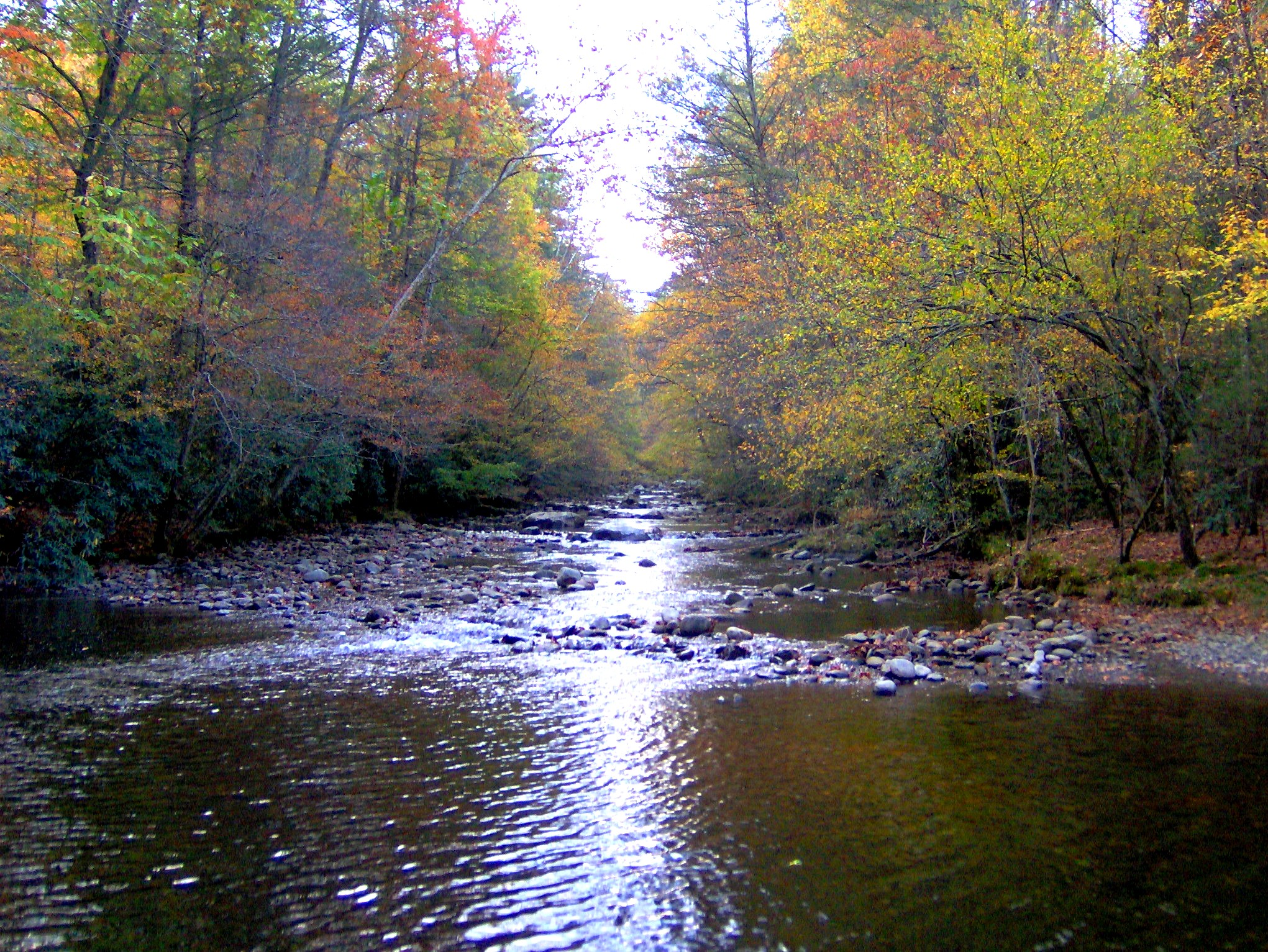 Little River in Elkmont, Tennessee, GSMNP. The Elkmont area is created by the confluence of Little River and Jakes Creek, which have sliced a small valley between Sugarland Mountain and Meigs Mountain.